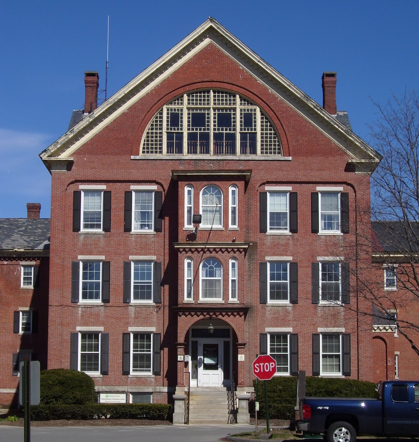 The Brattleboro Retreat, founded in 1834, is a facility for the treatment of mental health disorders and drug addiction. It is located in Bratteboro, Vermont on a site of over 1000 acres on the Retreat Meadows inlet of the West River. Brattleboro Retreat was "the first facility for the care of the mentally ill in Vermont, and one of the first ten private psychiatric hospitals in the United States". (Source: "Mission & History" on the Brattleboro Retreat website)